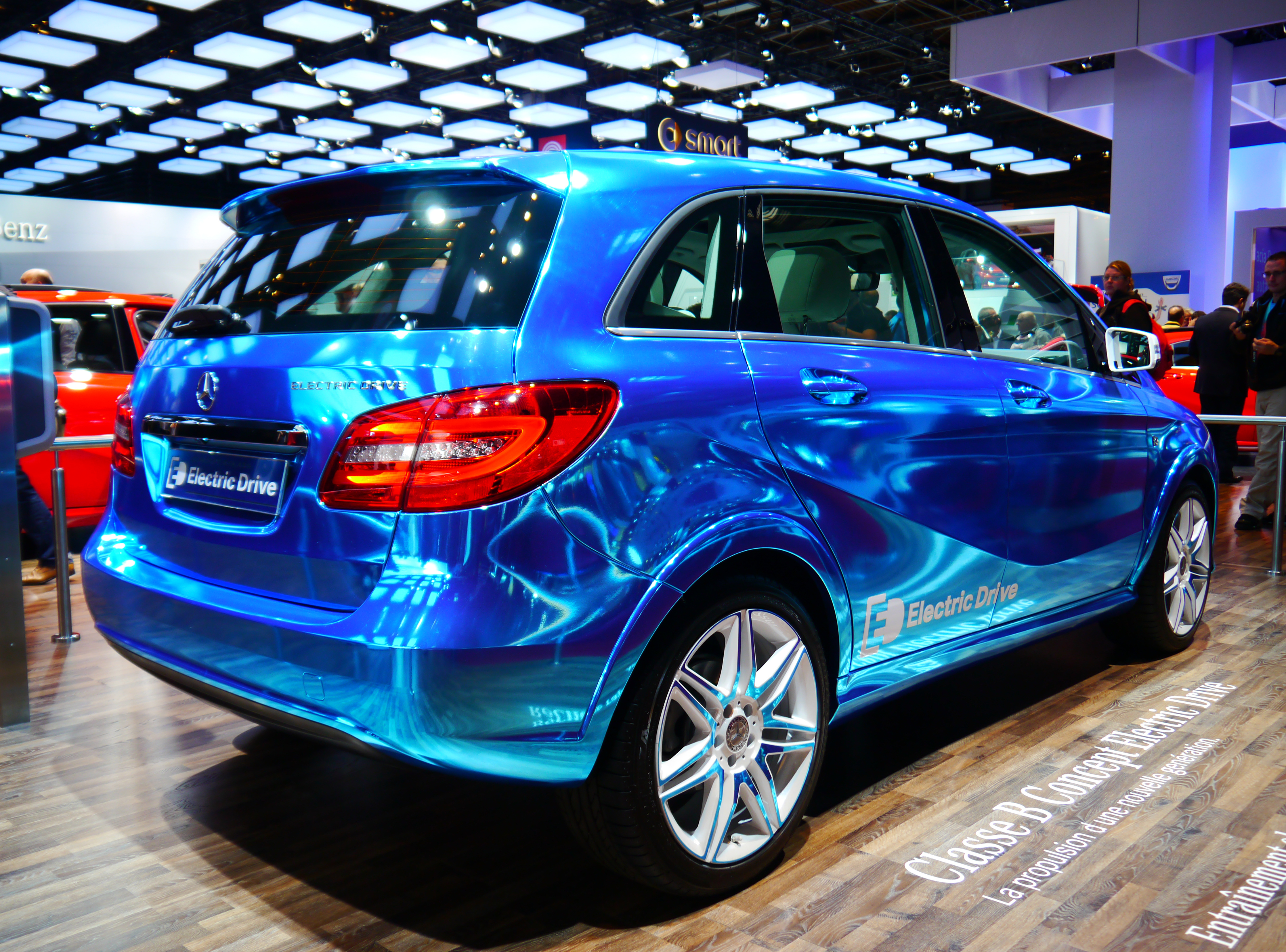 Mercedes-Benz B-Class Concept Electric Drive - plug-in hybrid. This concept has an electric motor rated 136 PS (100 kW; 134 hp) and 310 N·m (229 lb·ft), 36 kWh lithium-ion battery from Tesla Motors. The vehicle has a driving range of 200 km (124 mi) with a top speed of 150 km/h (93 mph). The battery can be charged at any standard domestic 230 V power outlet or 400 V rapid charging terminal.